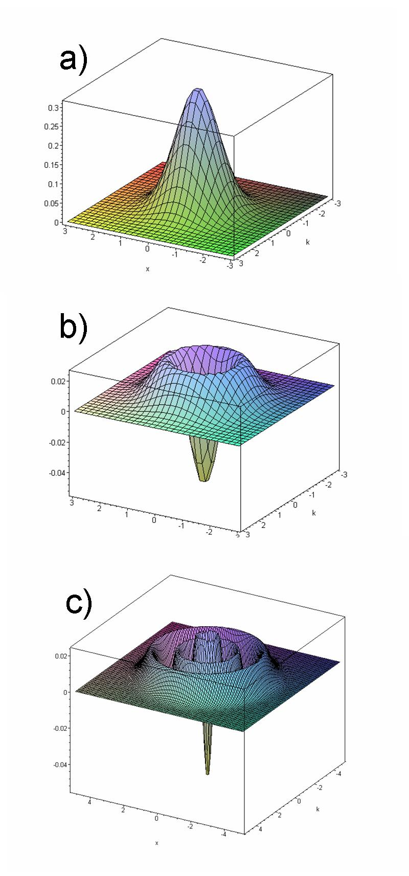 I made this myself in Maple. I release it into the public domain.